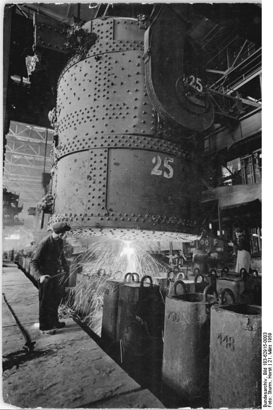 Steel casting in ingot moulds, CVEB Stahl- und Walzwerk Brandenburg steelmill